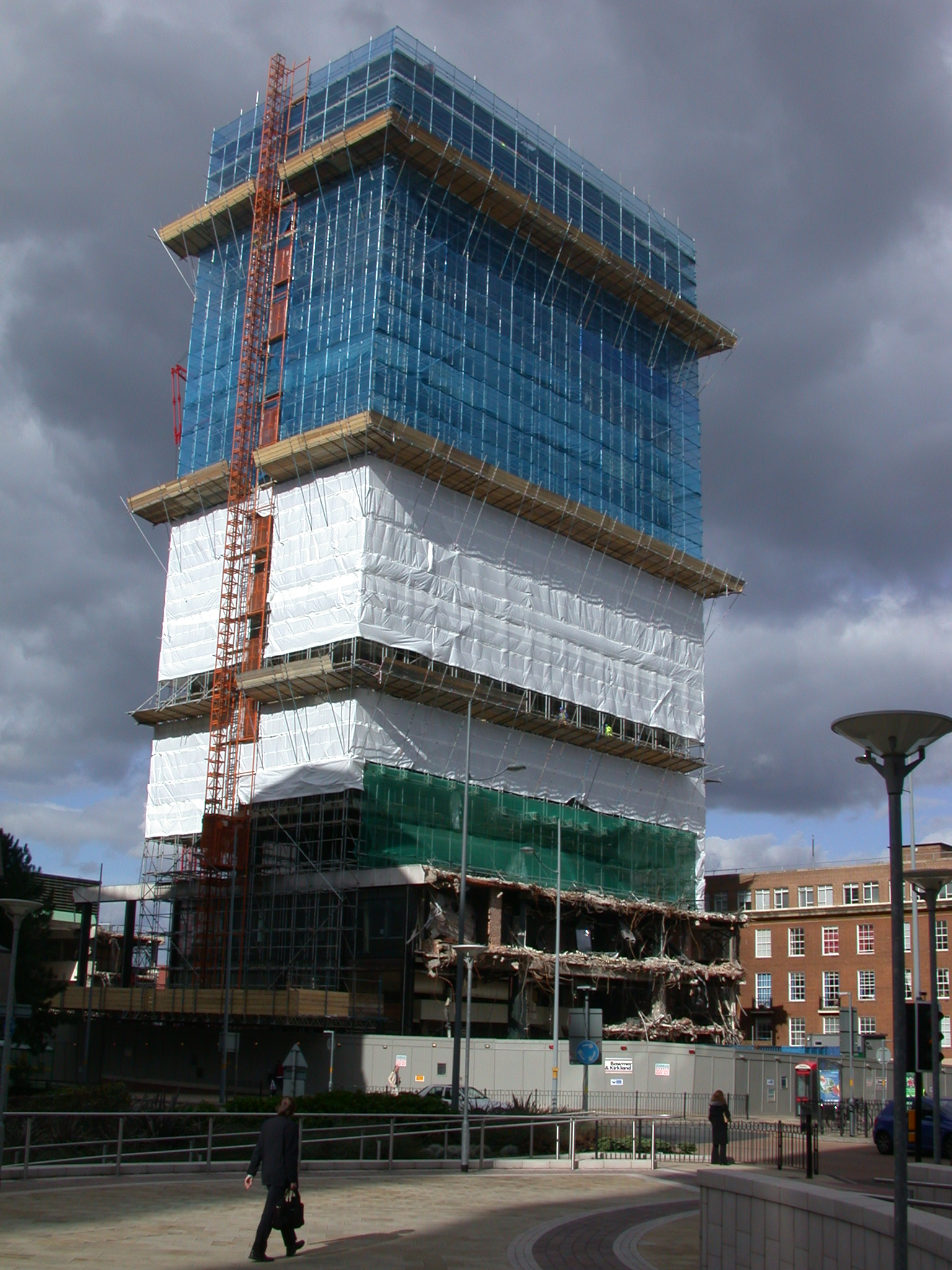 Partial demolition and refurbishment of the Post and Mail building, Birmingham, England.